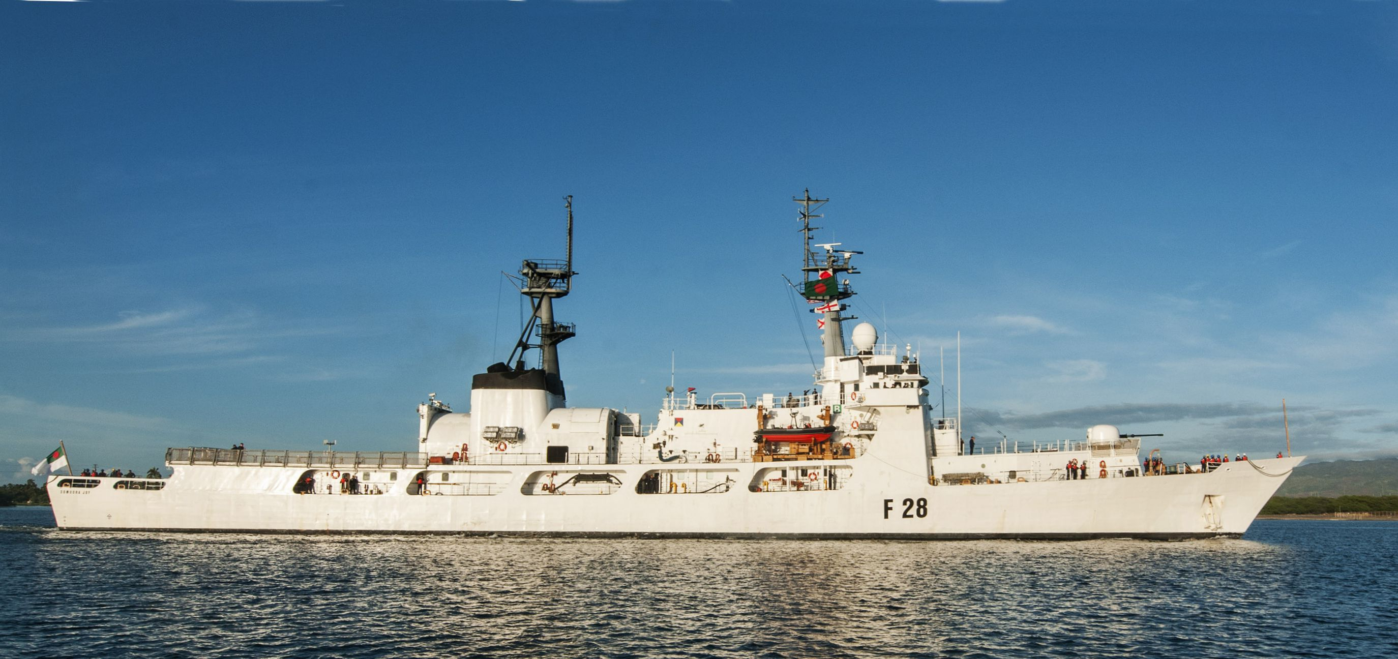 The Bangladesh Navy frigate Somudro Joy (F-28) arrives at Joint Base Pearl Harbor-Hickam, Hawaii (USA), for a scheduled port visit. From 1972 to 2012 the ship was known as the U.S. Coast Guard Hamilton-class high endurance Cutter USCGC Jarvis (WHEC-725).